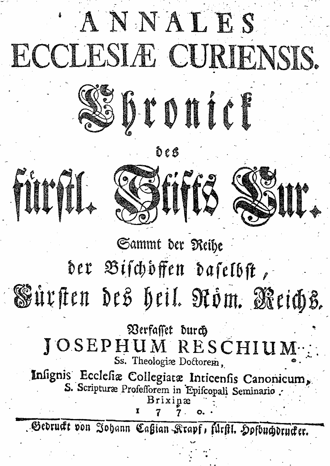 Frontispiece of Joseph Resch's Annales ecclesiae Curiensis, printed in Brixen 1770